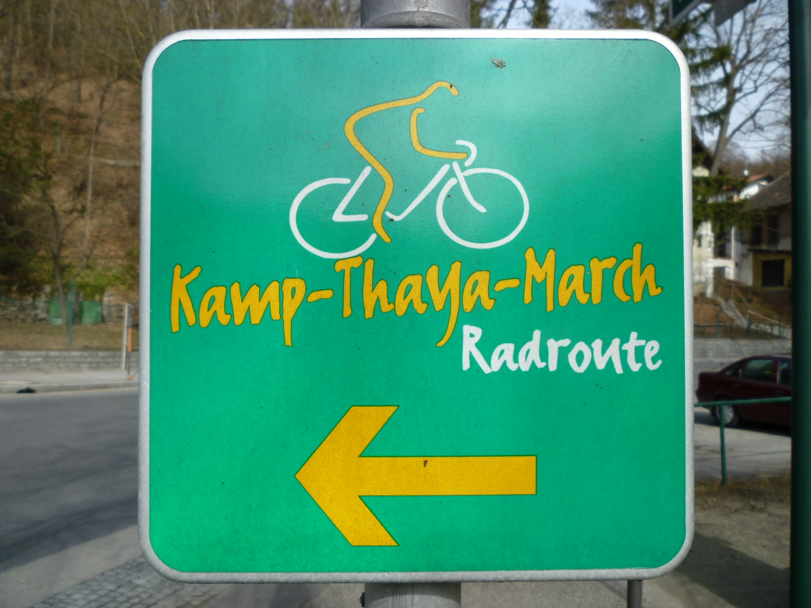 Directory sign of Kamp Thaya March Cycle Rouee in Rosenburg am Kamp, Niederösterreich